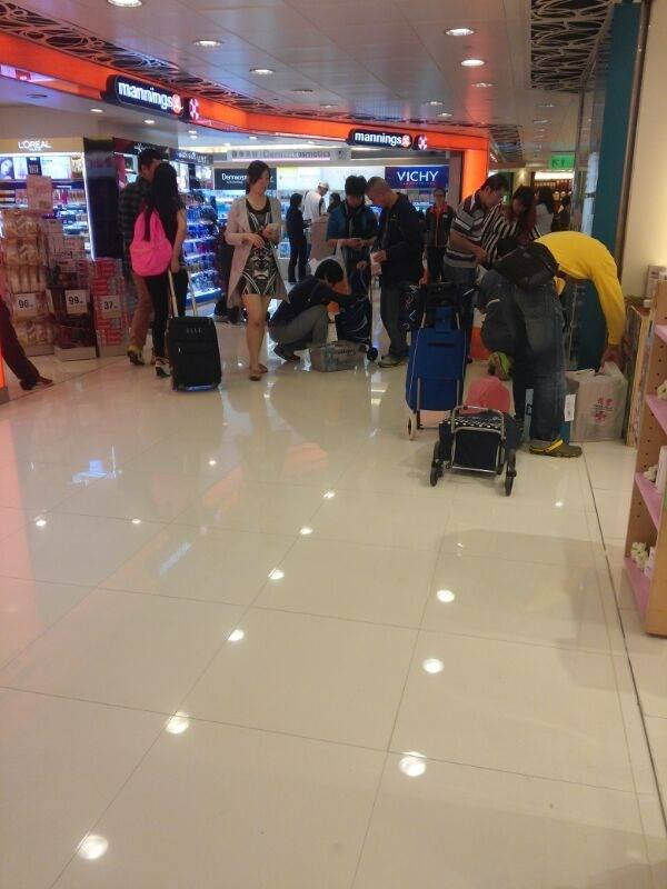 Parallel Traders outside pharmacy in Hong Kong